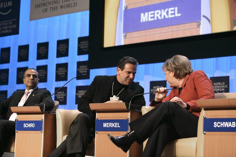 DAVOS/SWITZERLAND, 24JAN07 - (fltr) Sunil Bharti Mittal, Chairman and Group Managing Director, Bharti Enterprises, India, James J. Schiro, Group Chief Executive Officer and Chairman of the Group Management Board, Zurich Financial Services, Switzerland, Angela Merkel, Federal Chancellor of Germany, captured during the session 'Opening Plenary: The Shifting Power Equation' at the Annual Meeting 2007 of the World Economic Forum in Davos, Switzerland, January 24, 2007.